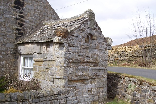 Old schoolhouse porch made from Roman stones brought from the fort at Bremenium This is one of the most curious buildings I have seen in Northumberland, the old schoolhouse porch at Rochester is built entirely of Roman stones brought from the nearby fort of Bremenium. You can clearly see the gutterings from the side of roads, and the two rounded stones intended for 'ballistae'